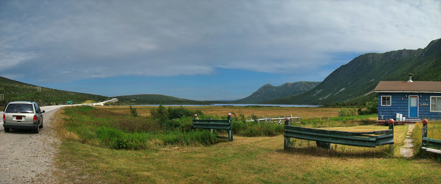 Table Mountain (518m), Western Newfoundland, Canada. Along the Trans-Canada Highway, about 20km northwest of Channel-Port aux Basques.